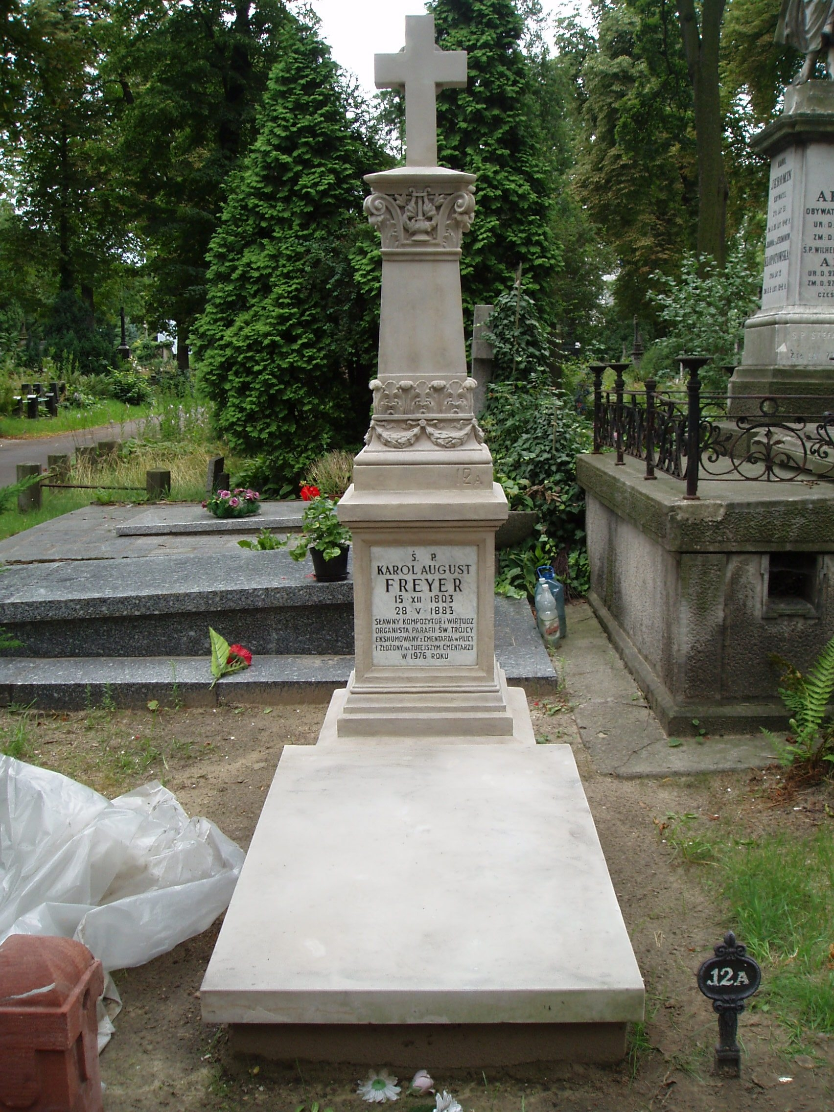 Karol August Freyer's tomb, lutheran cemetery in Warsaw